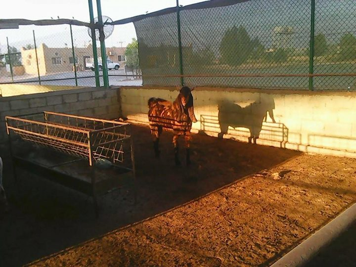 Kamori (male) at Bahrain